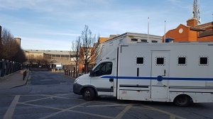 Mountjoy Prison (or Mountjoy Gaol) has the largest prison population in Ireland